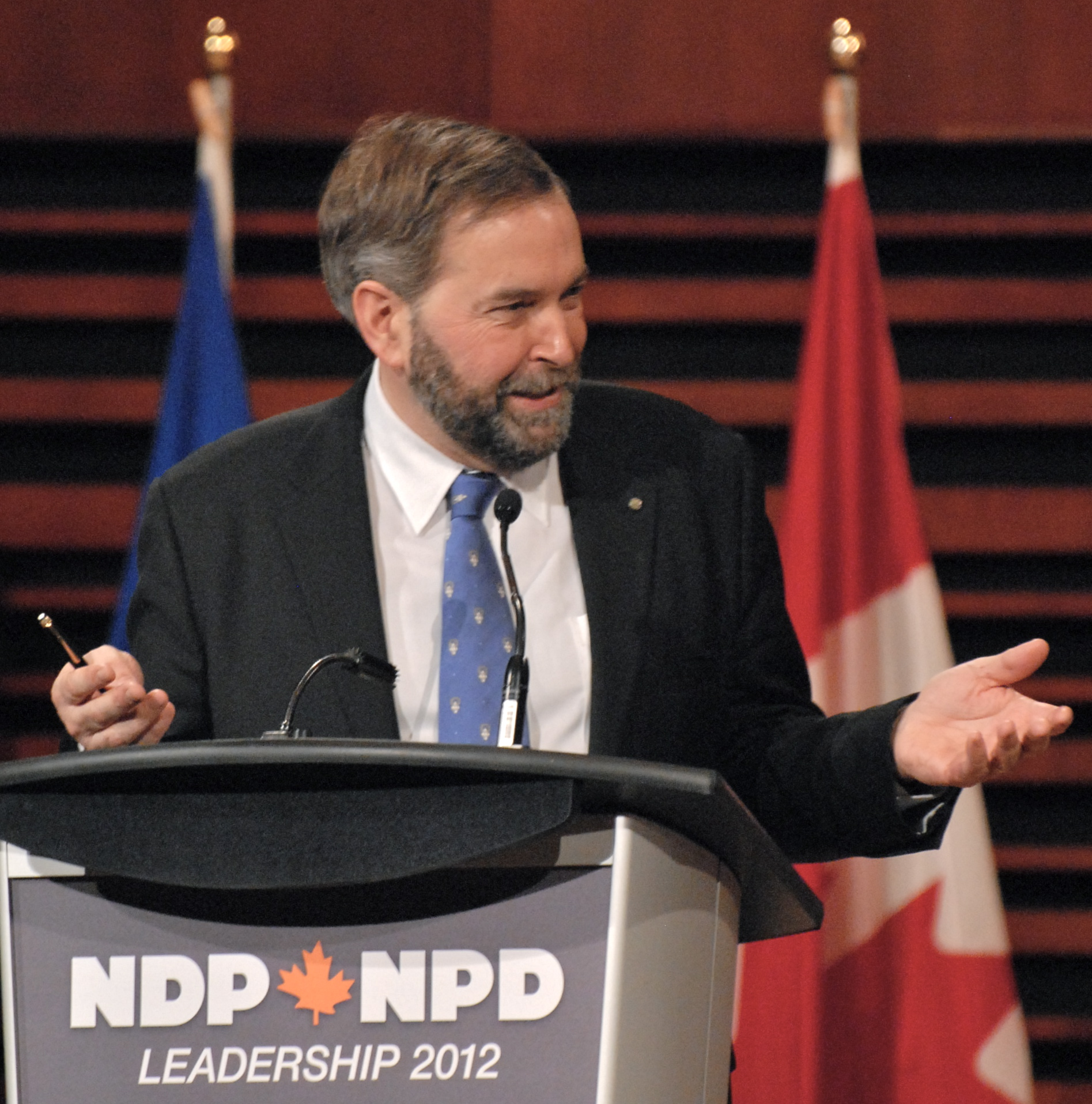 Thomas Mulcair, New Democratic Member of Parliament for the electoral district of Outremont, during the debate of the candidates to the leadership of the New Democratic Party of Canada, February 12, 2012 in Québec